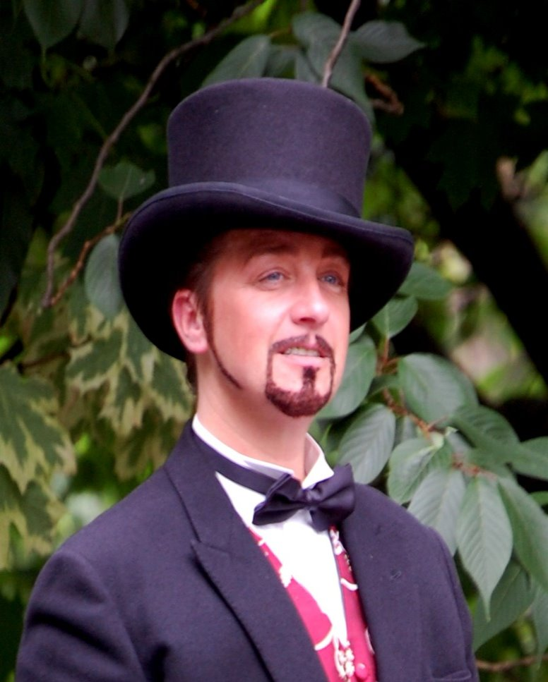 Valentino King In sackville Gardens Manchester